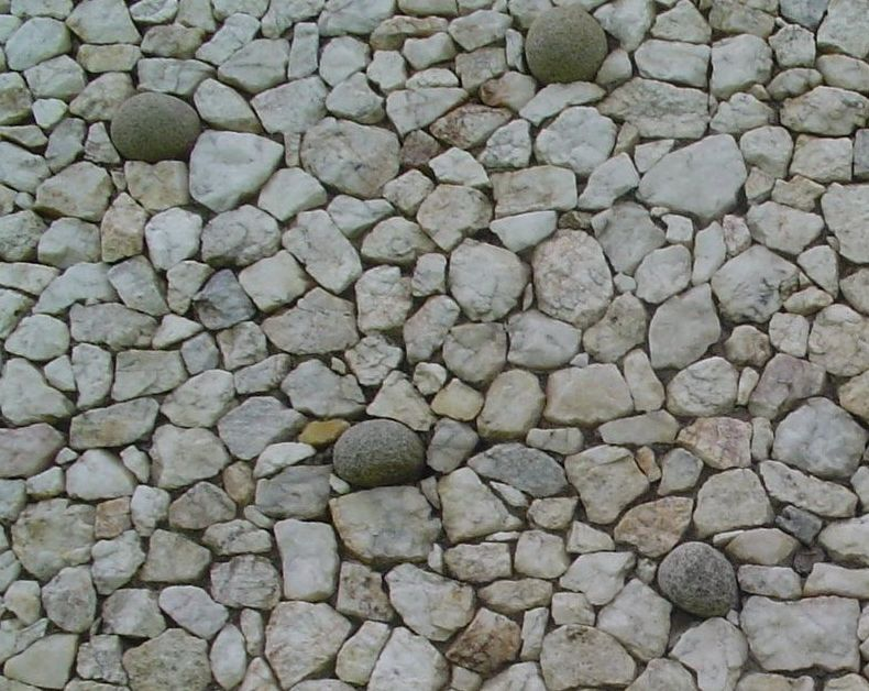 Detail of wall at Newgrange, County Meath, Ireland.